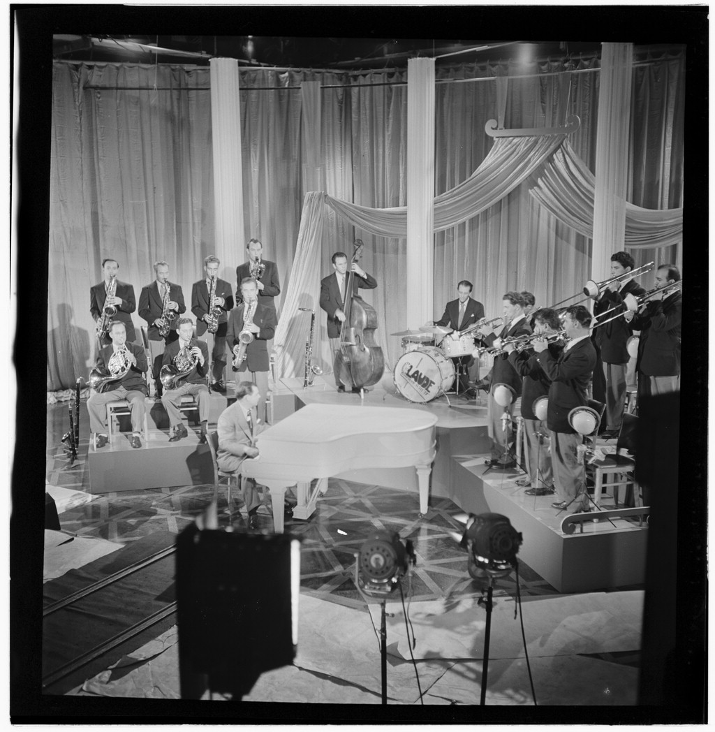 Portrait of Claude Thornhill, Sandy Siegelstien, Willie Wechsler, Micky Folus, Joe Shulman, Billy Exiner, Mario Rullo, Danny Polo, Lee Konitz, Bill Bushing, Emil Terry, Lou Mucci, Eddie Zandy, Barry Galbraith, Bill Barber, Al Langstaff, and Vahe (Tak) Tak / William P. Gottlieb [graphic]